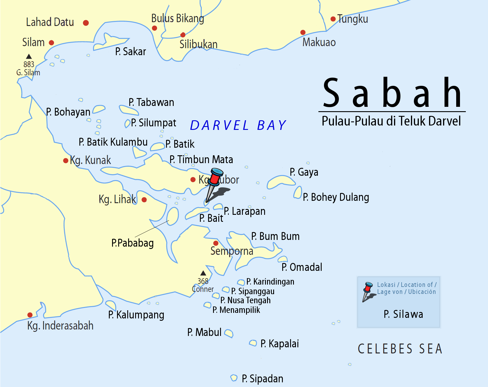 Sabah: Scheme of Islands in the Darvel Bay with Pushpin Marker for Pulau Silawa